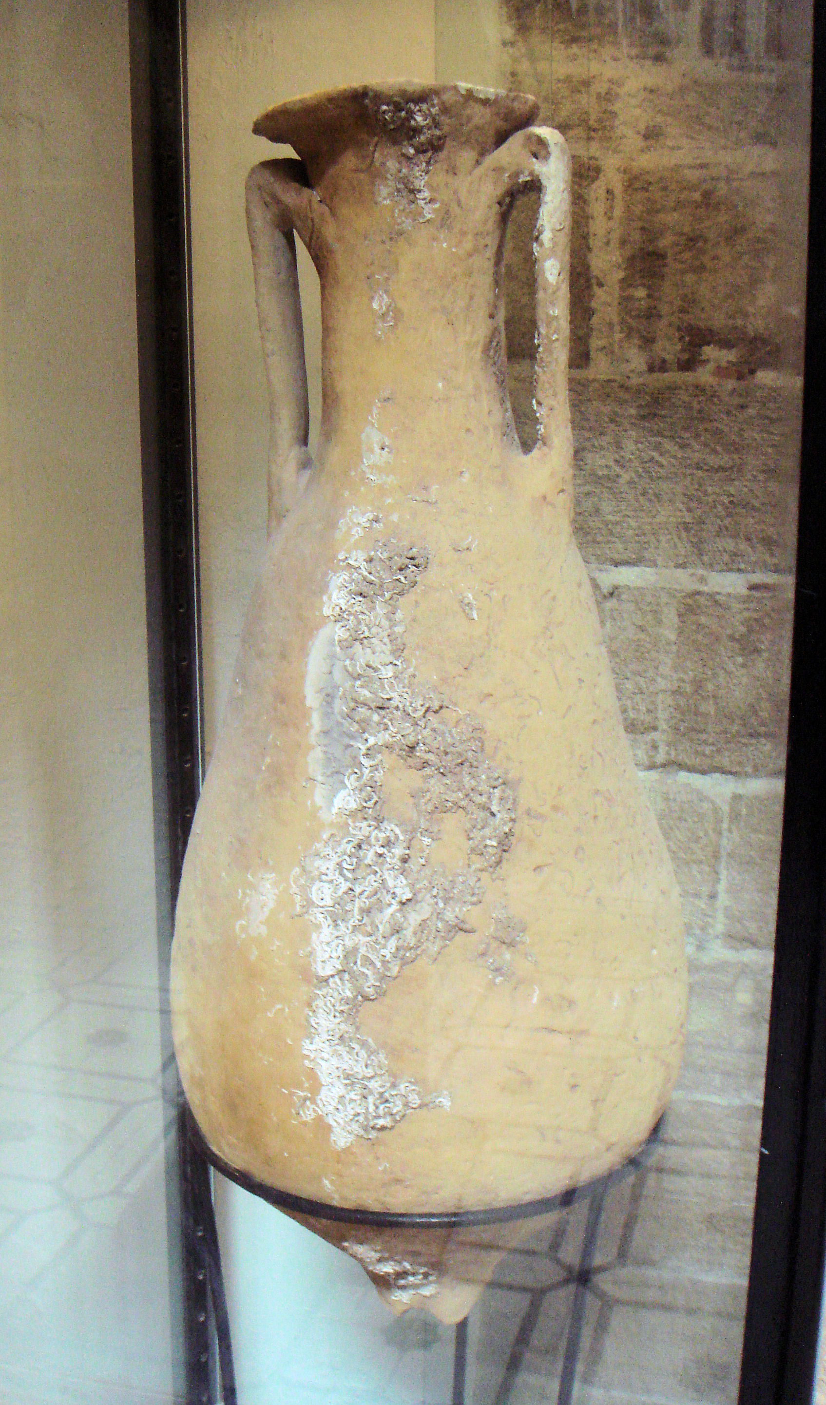 Amphora_of_the_Beltran_2B_type_late_1st_or_2nd_century_Betique_Southern_Spain_found_between_Mogador_and_Pharaon_islands.